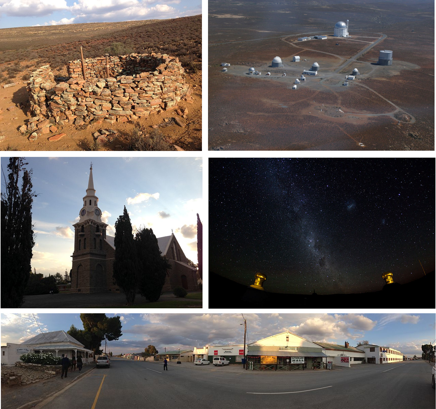 A collections of different pictures of the town of Sutherland they are (clock wise from top): By Discott By Pschella. By Matt Biddulph By Discott By Discott